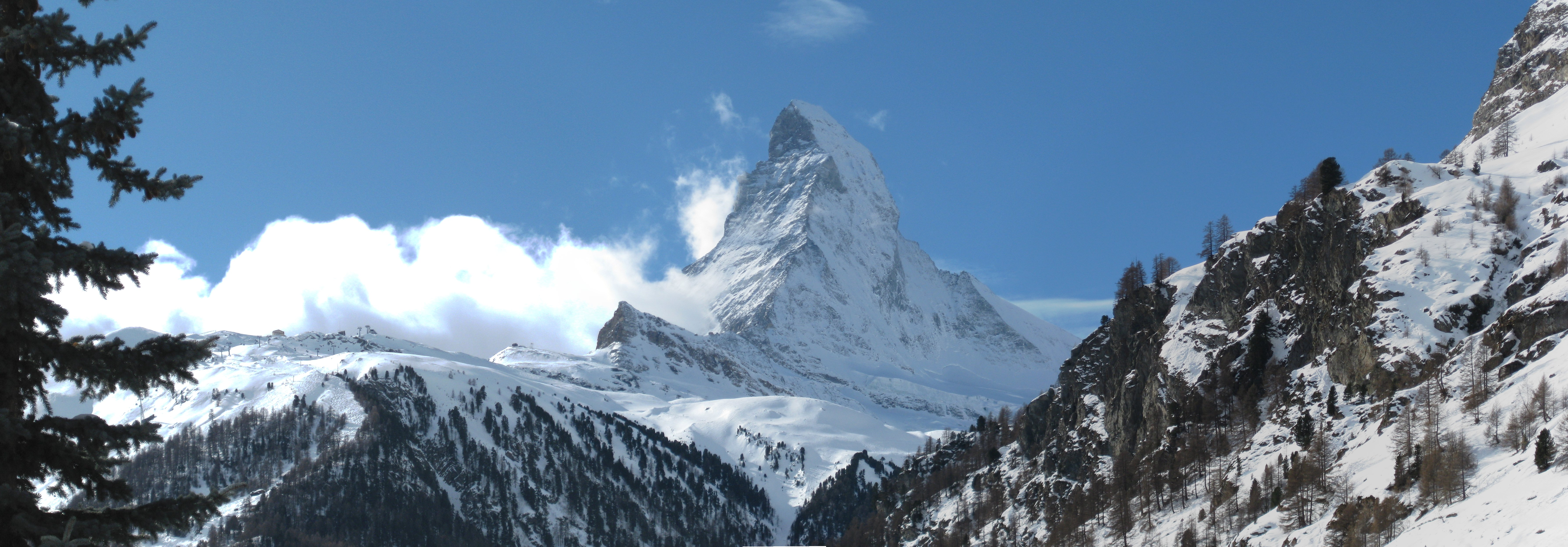 A panorama